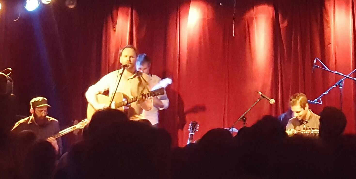 Avec pas d'casque photographed in Montreal, Quebec, Canada inside La Sala Rossa.